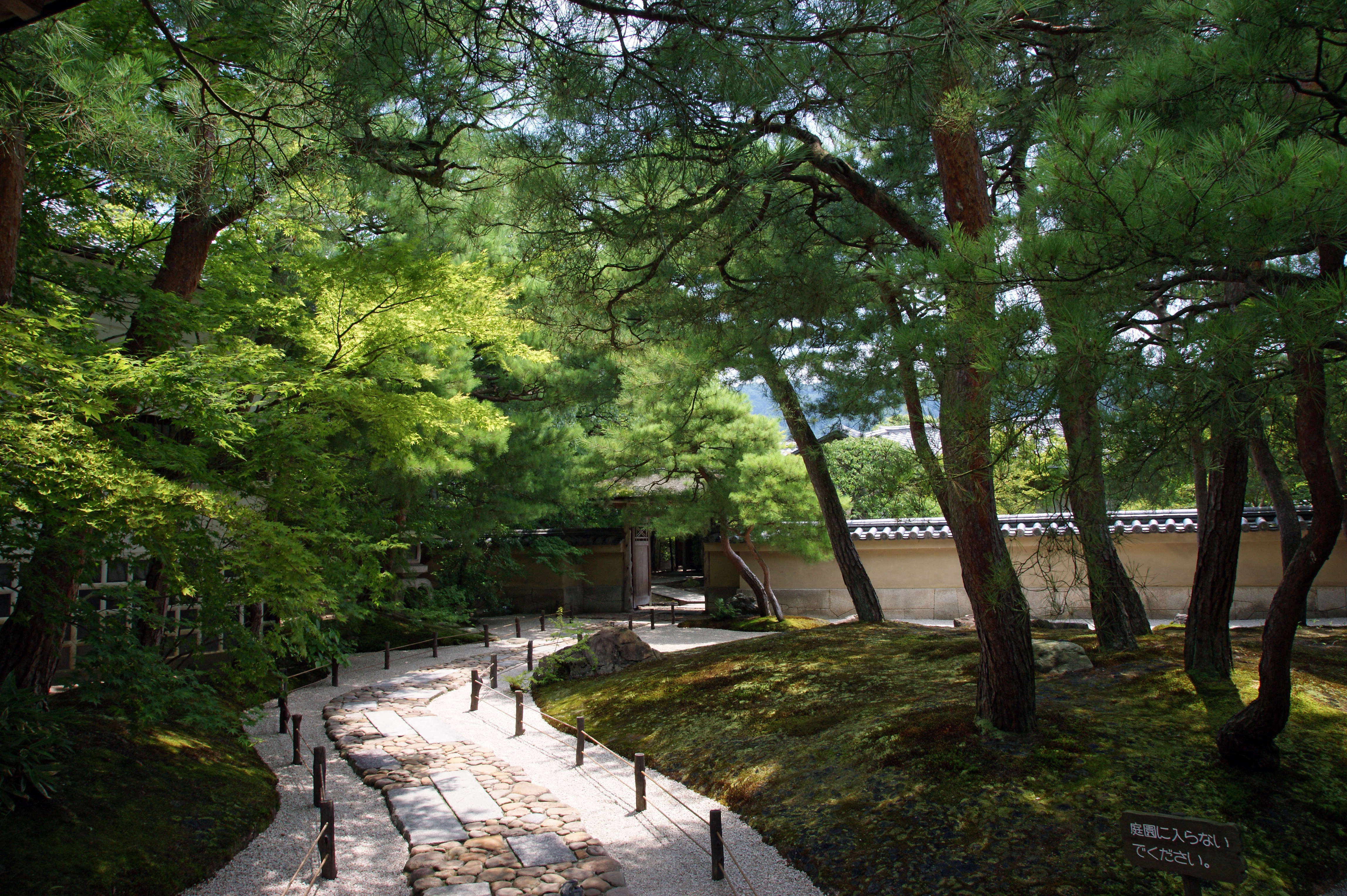 Adachi Museum of Art in Yasugi, Shimane prefecture, Japan